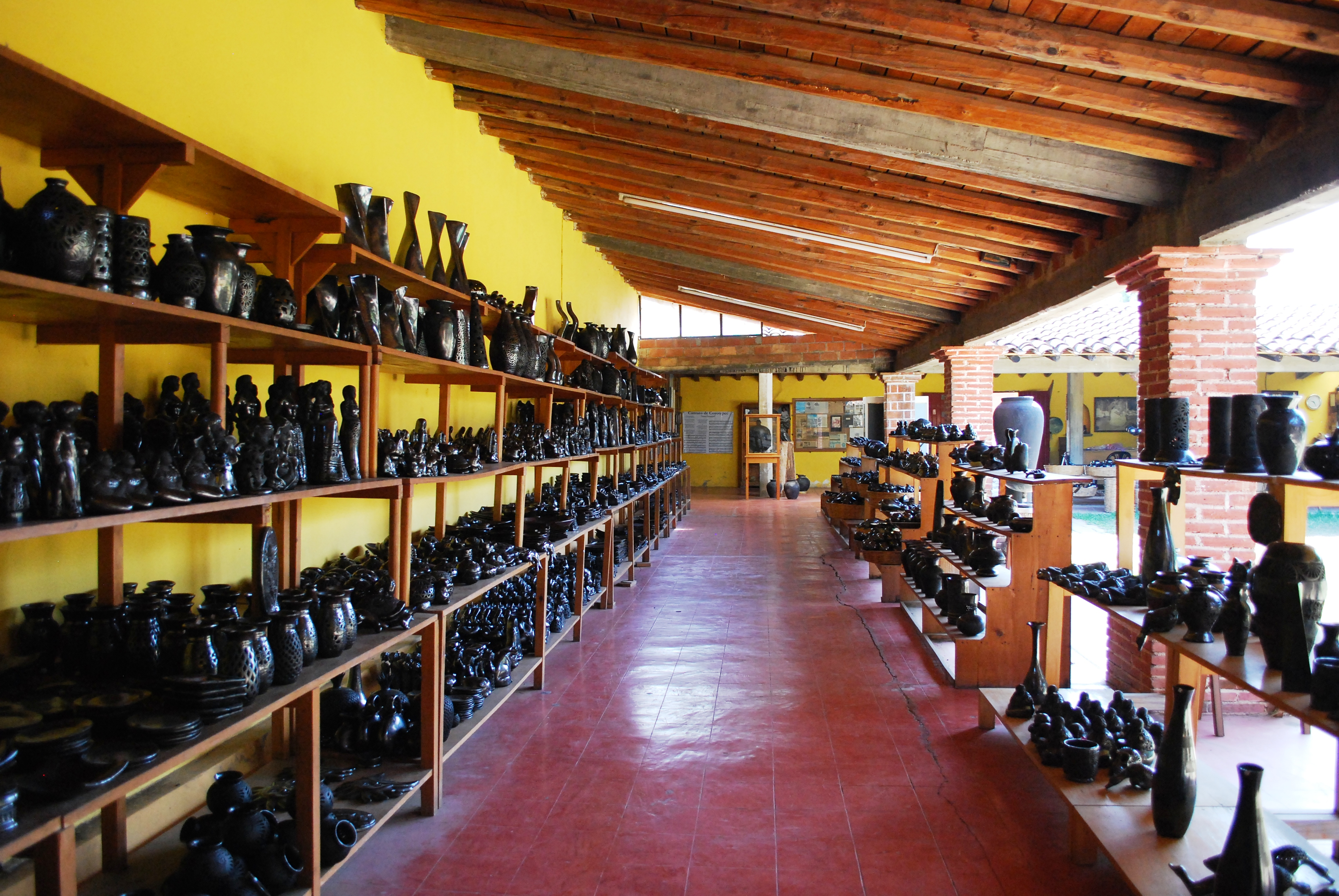 View of the courtyard in which barro negro pieces are sold at the Doña Rosa Workshop in San Bartolo Coyotepec, Oaxaca, Mexico